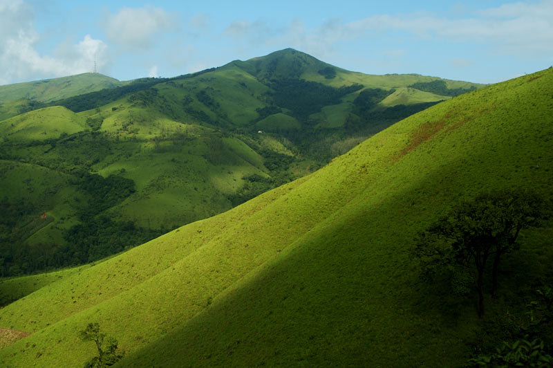 Kemmangundi, showing grassland and shola